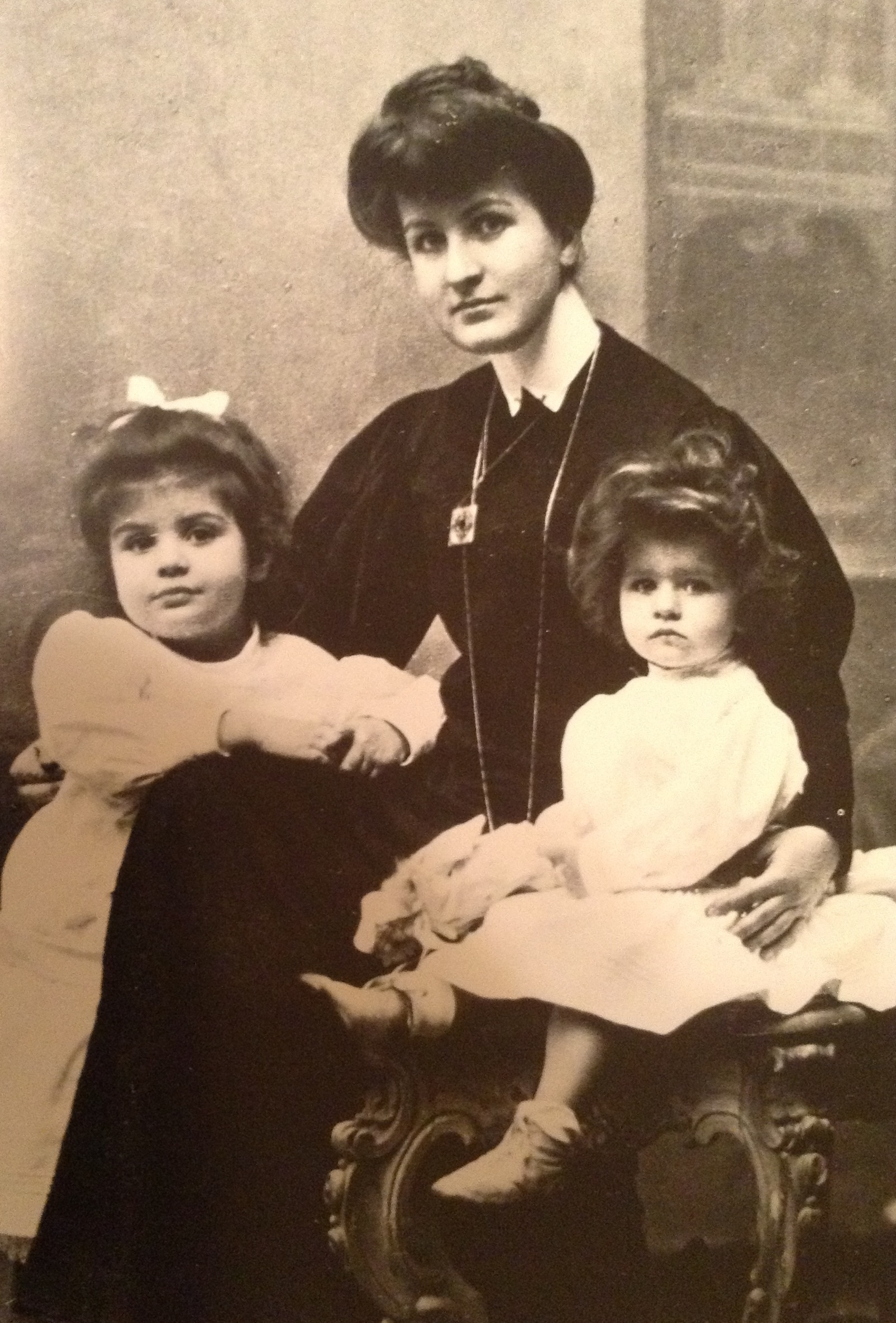 Alma Schindler Mahler photographed circa 1905-1906 with daughter Maria at left (who died in 1907) and future sculptor Anna at right